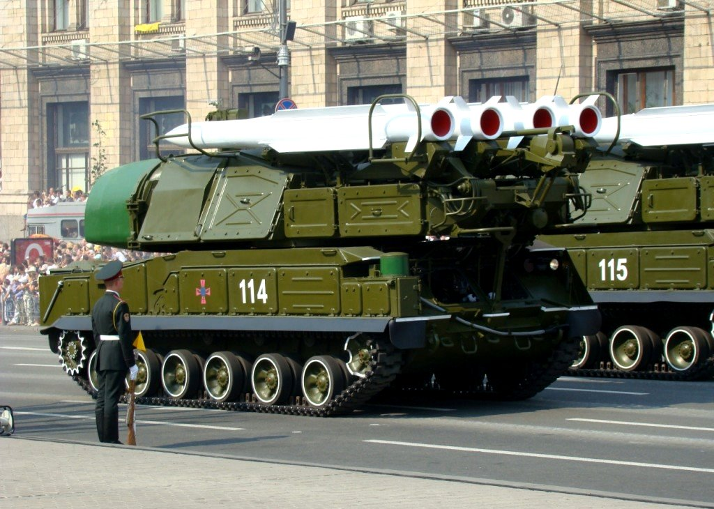 Ukrainian 9K37 Buk SAMS during the Independence Day parade in Kiev, Ukraine in 2008.